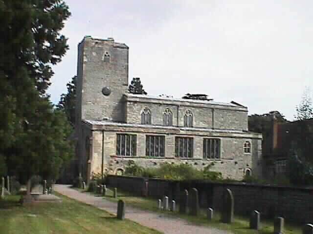 Deerhurst Church Church of my ancestors